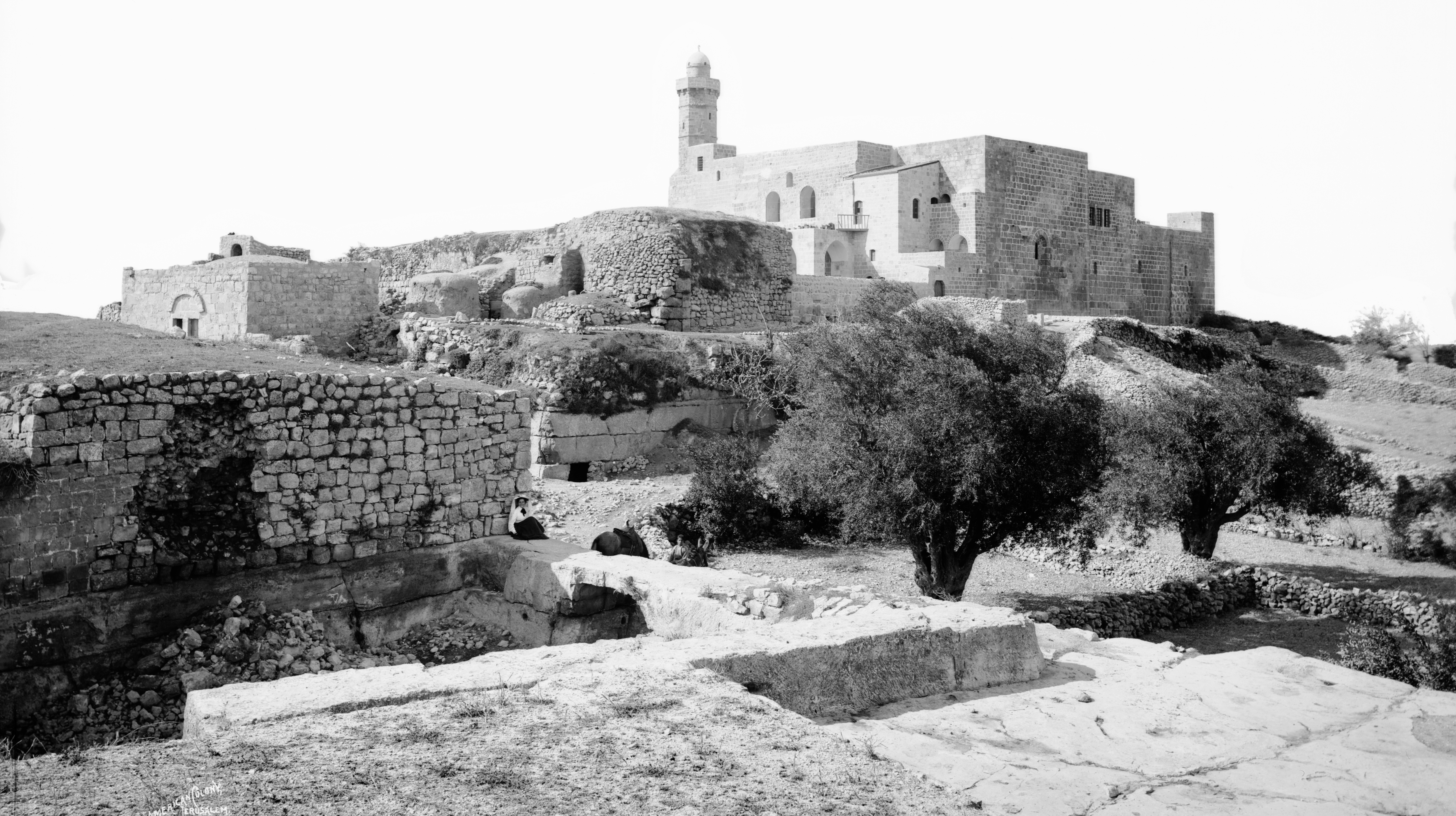 Environs of Jerusalem. Mizpah (Nebi Samwil).